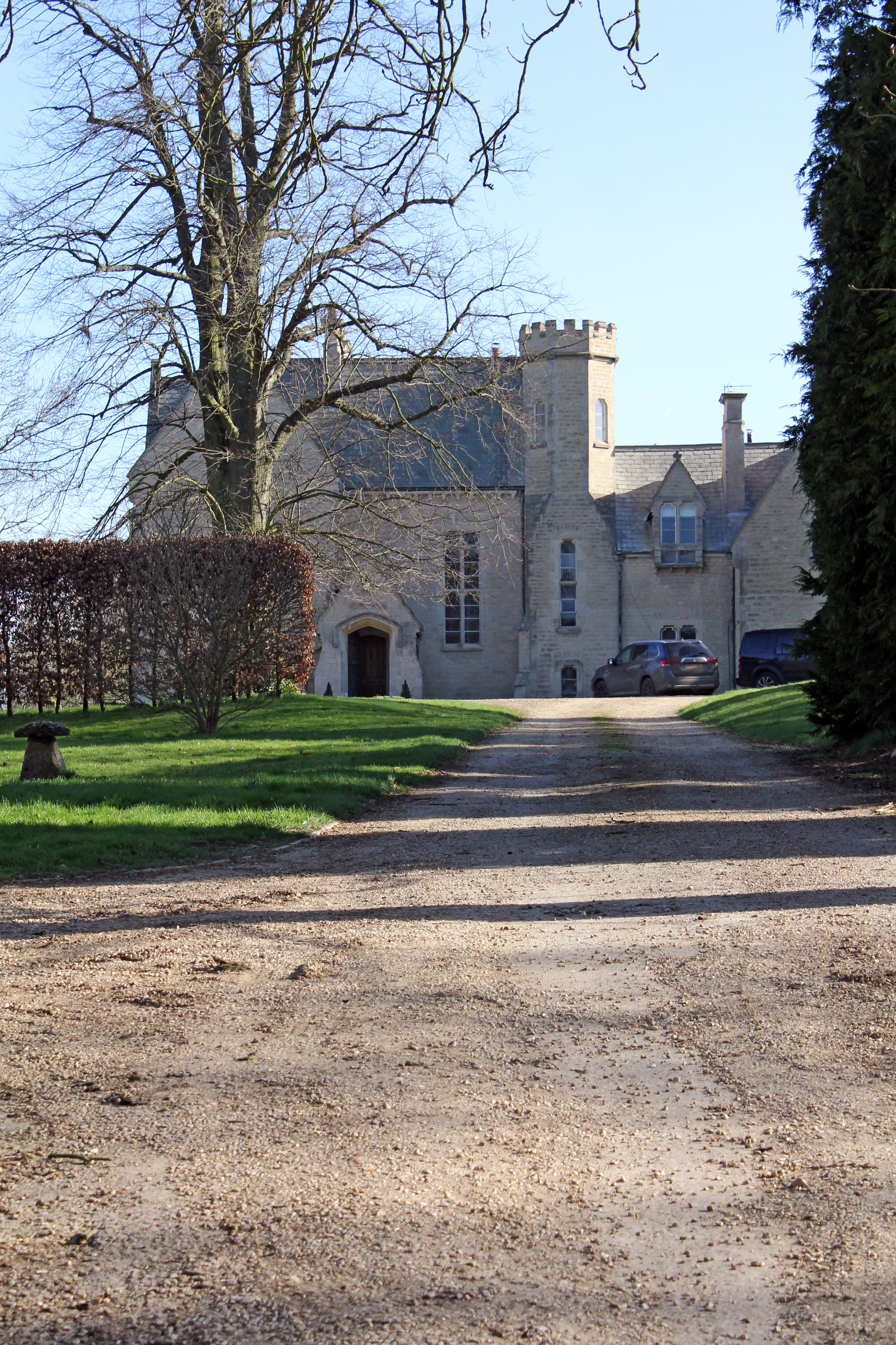 The Old Manor House, Main Street, Ingoldsby, Grade II Listed former Rectory of 1847 by architect Charles Kirk who died in that year but who was succeeded in the firm by his son also Charles. A plaque inside reads "FH 1847, to my successor: If thou chance to find a house to thy mind, and built without they cost, Be good to the poor as God gives thee store and then my labours not lost." Pevsner has little to say of it except "Entrance hall with impressive staircase."